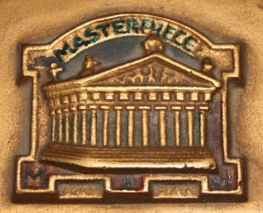 Photo of a logo moulded in a casting from a Monington and Weston piano.